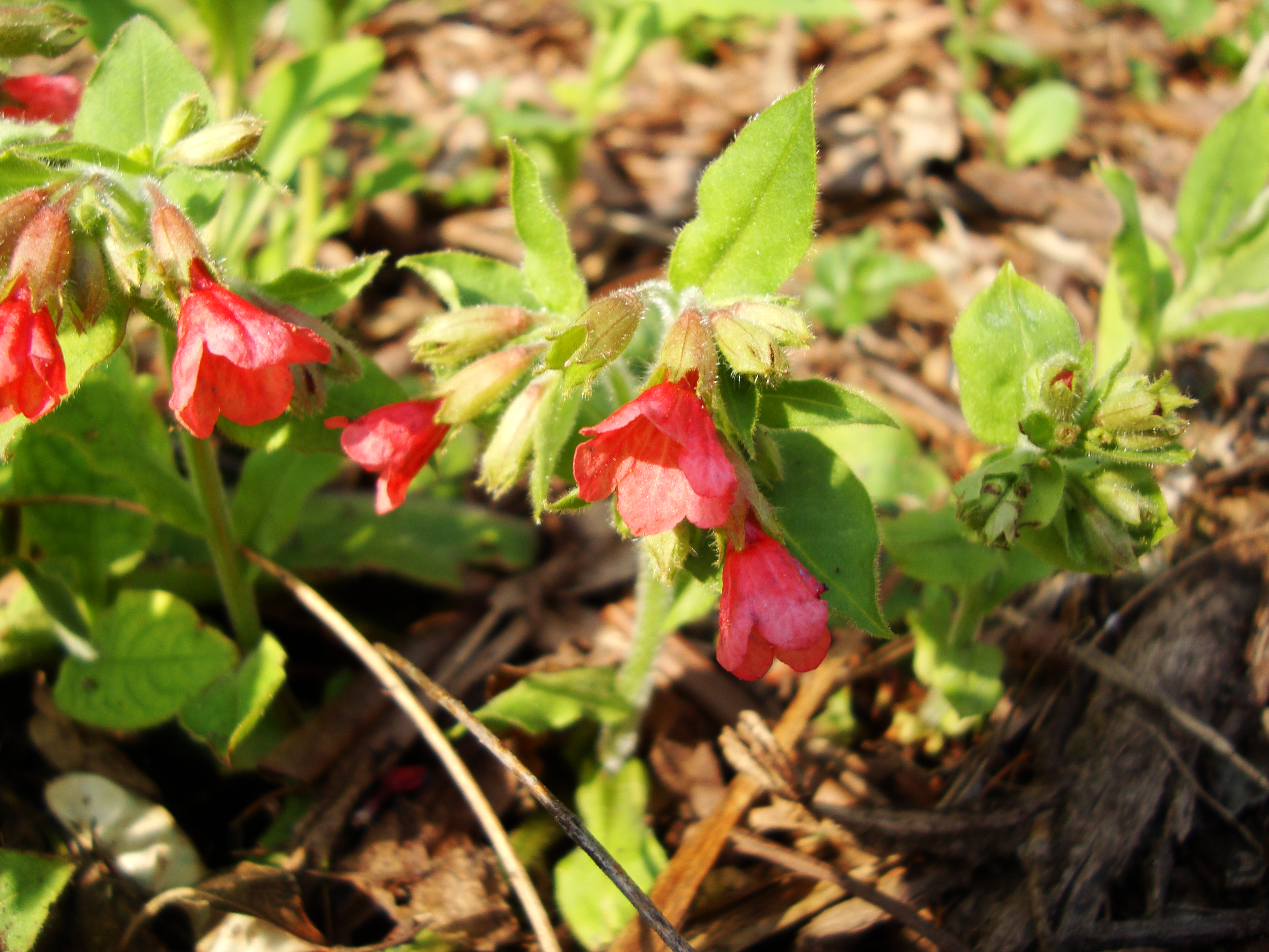 Pulmonaria rubra (botanical garden, Graz, Austria)